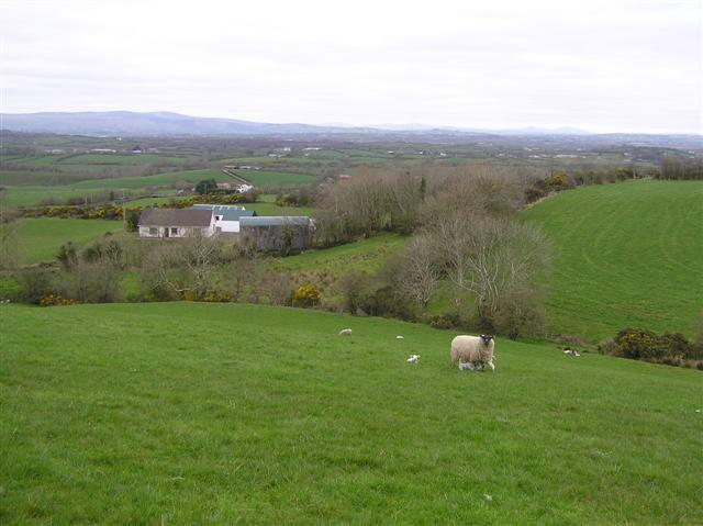 Radergan Townland Looking north; Sixmilecross in the distance